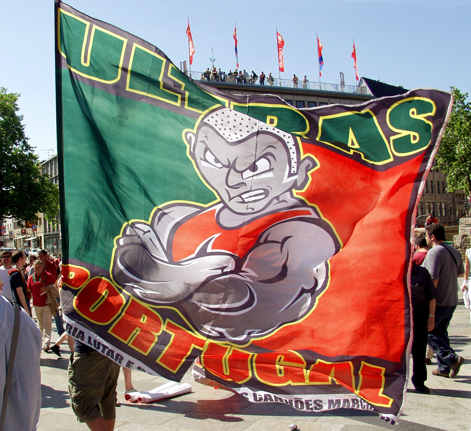 Fans of the Portuguese national football team in Cologne with a flag of the "Ultras", in front of the Cologne Cathedral.